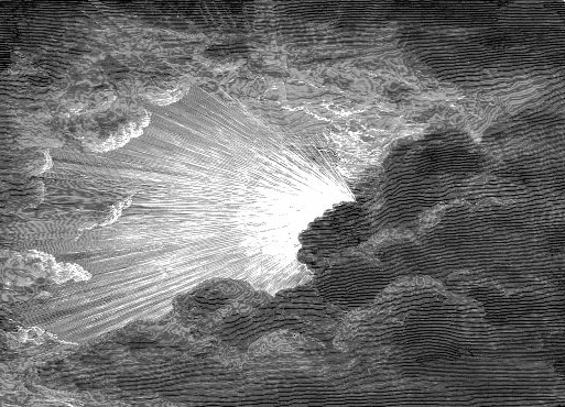 From Image:Creation of Light.png, trimmed for use in infoboxes where a large horizontal to vertical ratio is useful. Adam Cuerden talk 22:47, 19 March 2007 (UTC)